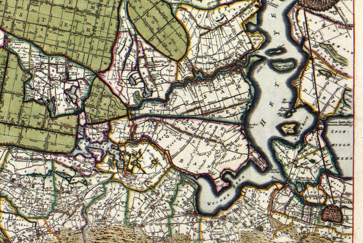 detail van een grotere kaart: T HOOGH-HEEMRAETSCHAP VAN DE UYTWATERENDE SLUYSEN IN KENNEMERLANT ENDE WEST-FRIESLANT, Amsterdam 1682-1683